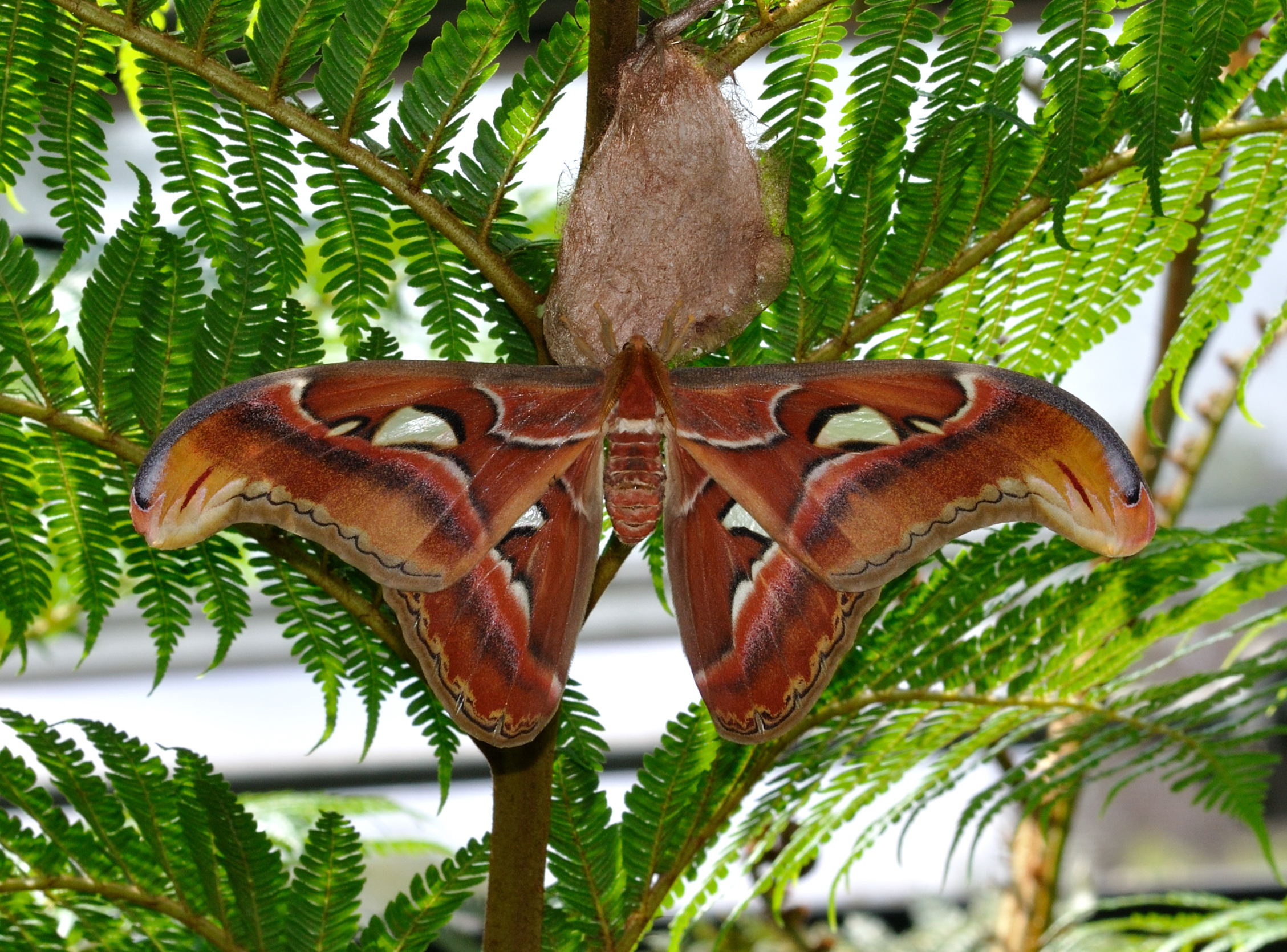 Male Atlas Moth (Attacus atlas) with cocoon in the Wilhelma, Stuttgart, Germany.